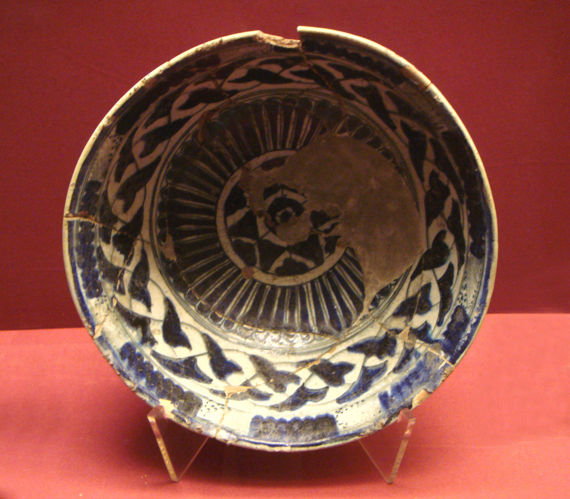 Iznik_pottery_Milletus_ware_14th_15th_century